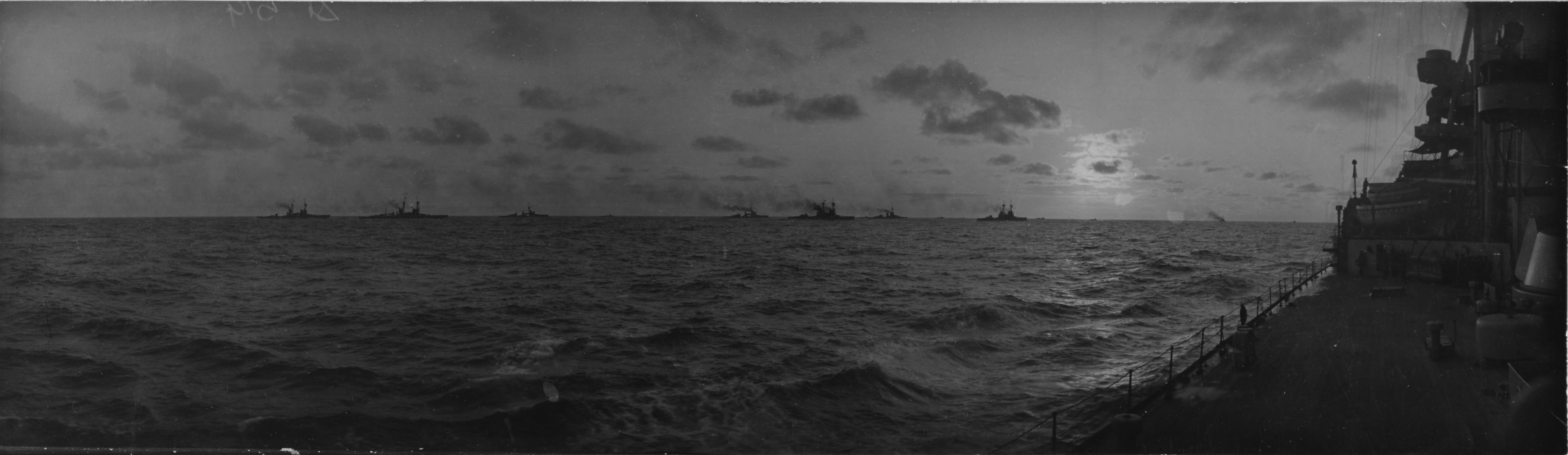 The 1st Battle Squadron of the British Grand Fleet in the North Sea, April 1915. Visible are HMS Marlborough (2R), HMS Colossus (3L) and HMS Hercules (4L). Other visible ships are HMS Superb, HMS St. Vincent, HMS Collingwood and HMS Vanguard.